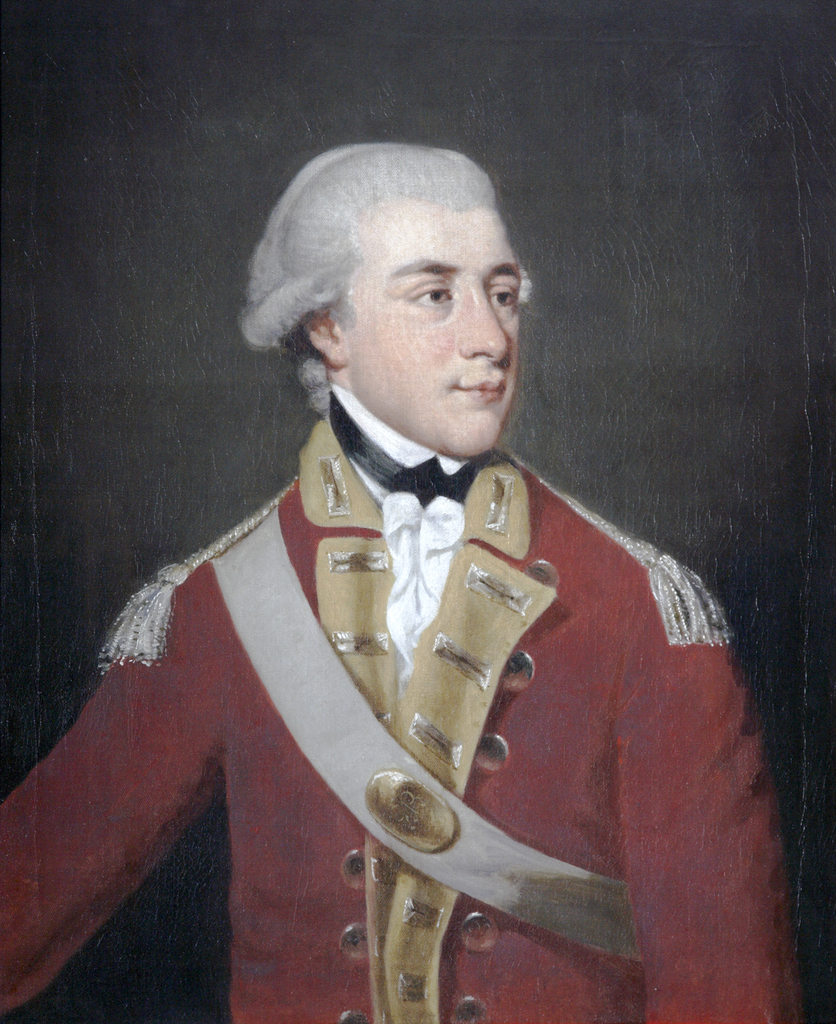 George Stucley Buck (1755-1791),[1] of Daddon House (later called Morton House), Bideford, and of Hartland Abbey and Affeton Castle, all in Devon. Portrait c.1750 (sic, per BBC yourpaintings description) by George Romney (follower of). Oil on canvas, 75 x 62 cm. Collection of Bideford Town Council, Ref:PCF13. Provenance: "unknown acquisition method". Displayed at Bideford Town Hall ↑ Vivian, Lt.Col. J.L., (Ed.) The Visitation of the County of Devon: Comprising the Heralds' Visitations of 1531, 1564 & 1620, Exeter, 1895, p.723, pedigree of Stucley